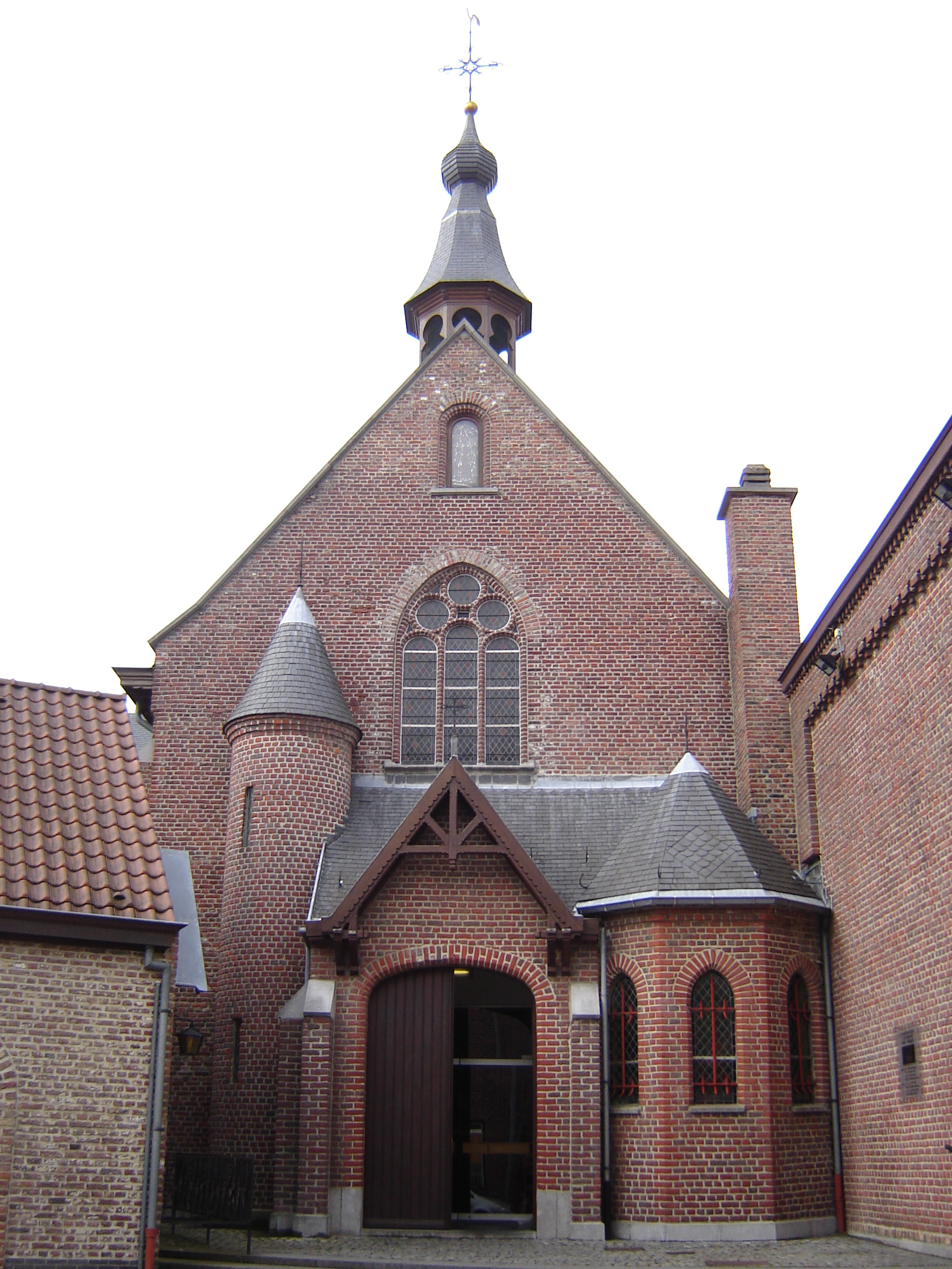 Church of Saint Godelina in Heule. Heule, Kortrijk, West Flanders, Belgium